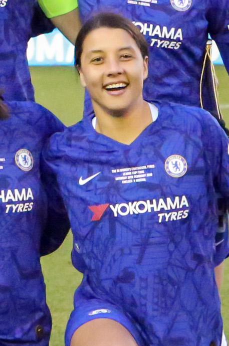 Chelsea starting team photo.